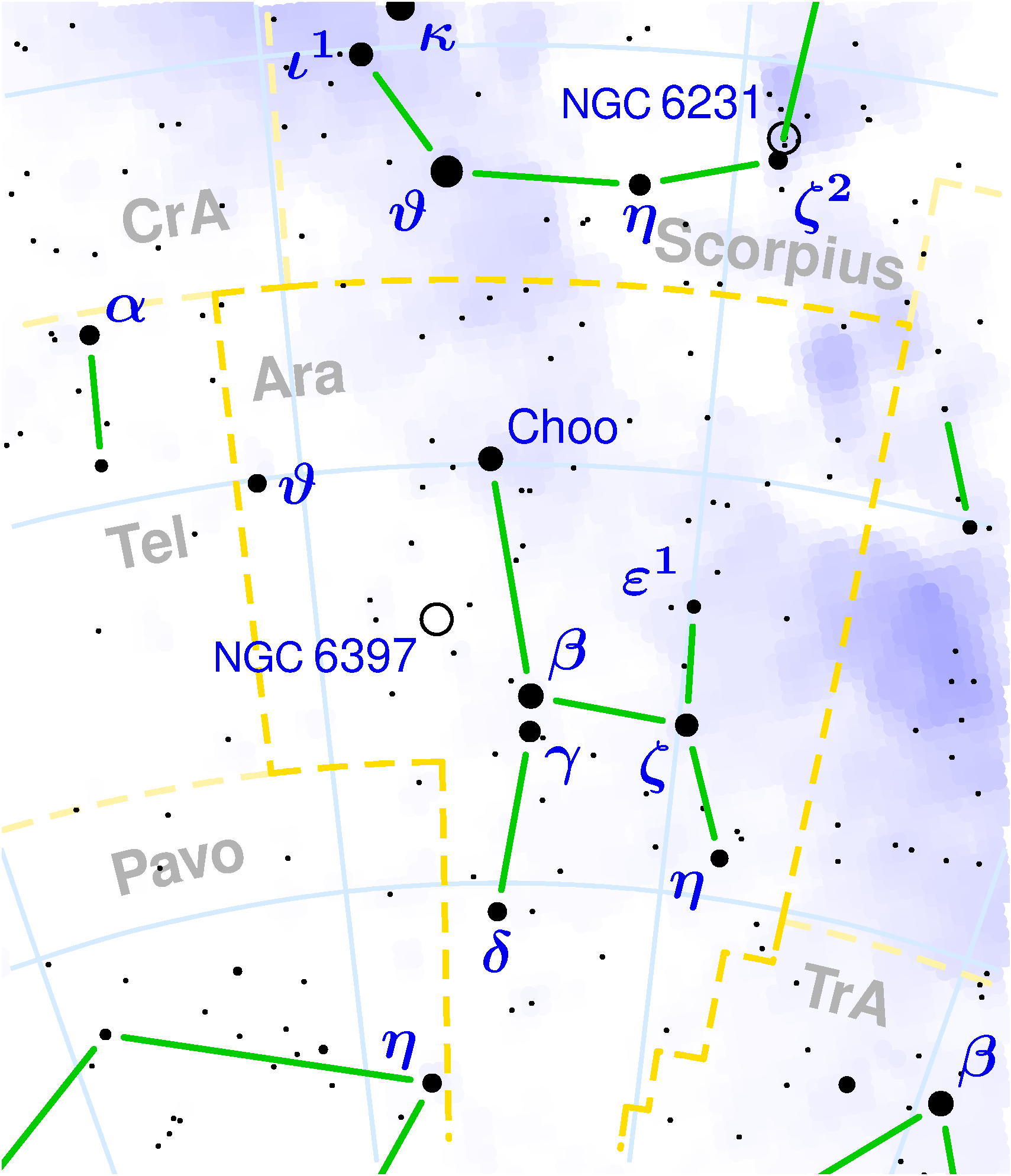 This is a celestial map of the constellation Ara, the Altar.